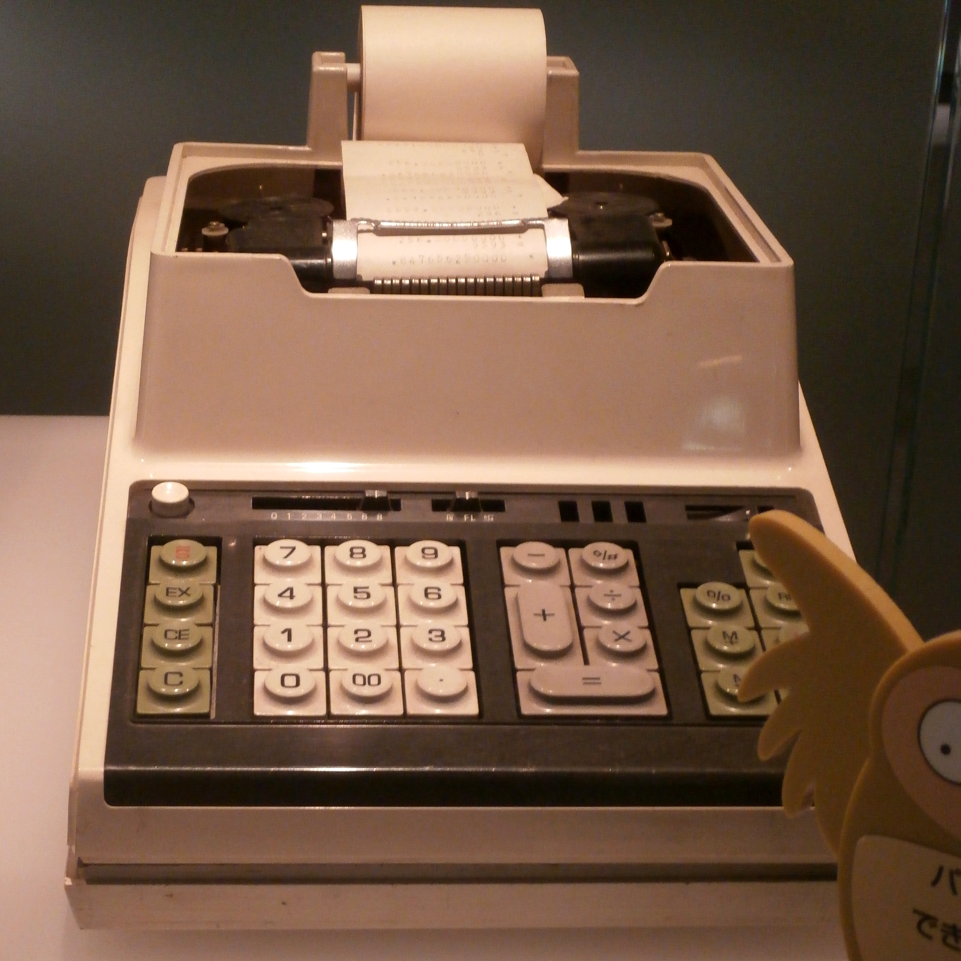 Busicom calculator at the National Museum of Nature and Science, Tokyo, Japan.